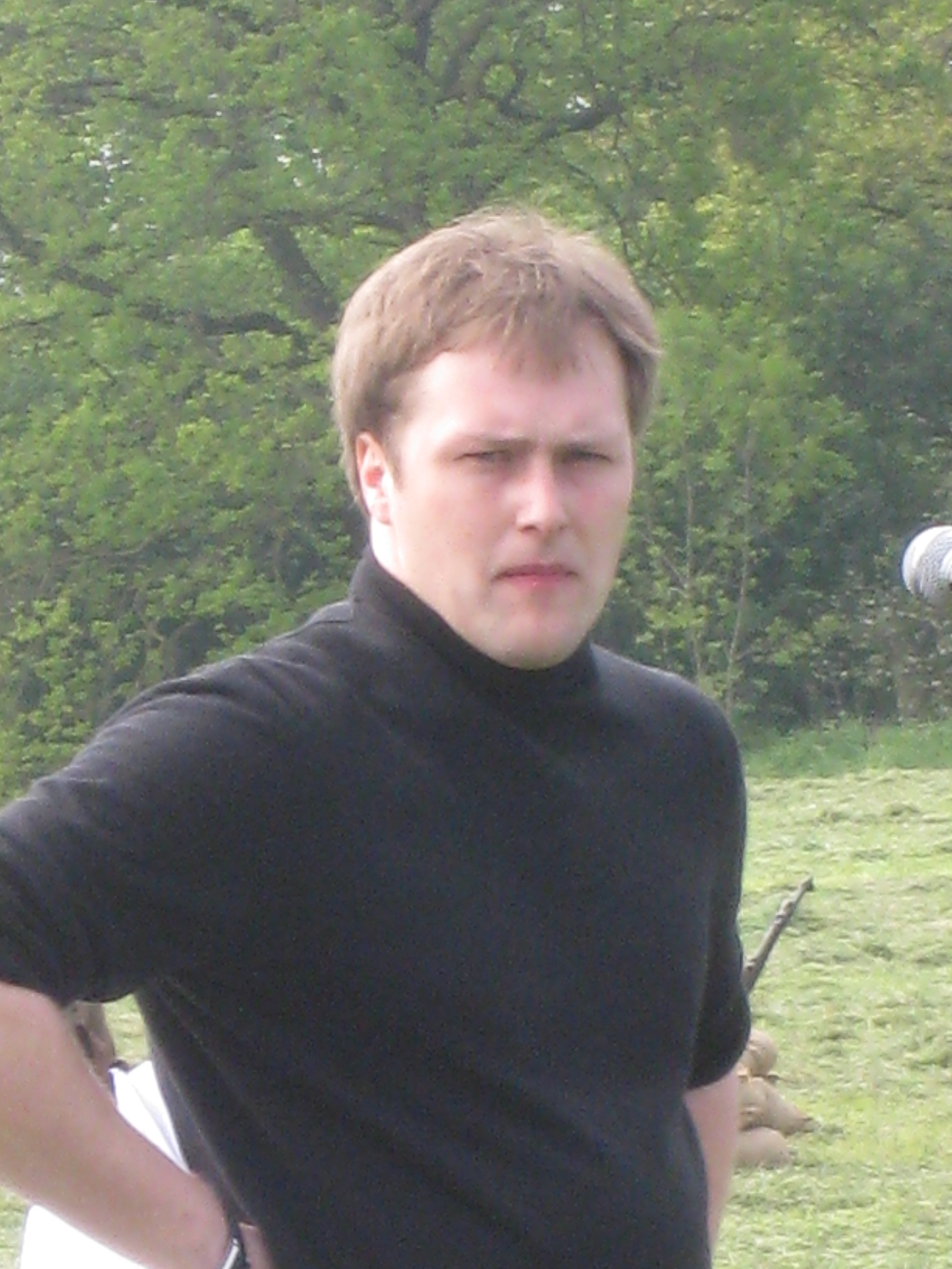 Joost Vaesen, mei 2010